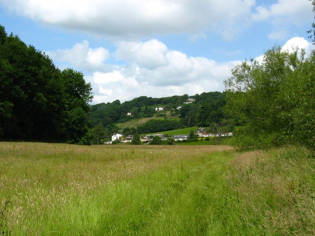 Wye Valley walk near Courtfield